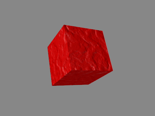 cube created with POV-Ray This image was created with POV-Ray.